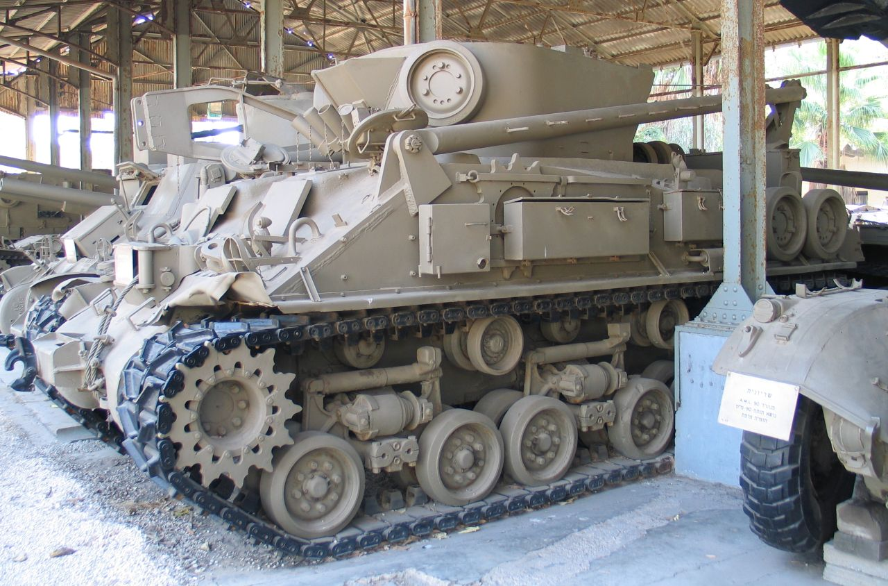 Description: M32 ARV (aka M32 TRV), an armored recovery vehicle (tank recovery vehicle) on M4 Sherman tank chassis, in Batey ha-Osef Museum, Tel Aviv, Israel. Source: Photo by me, User:Bukvoed.